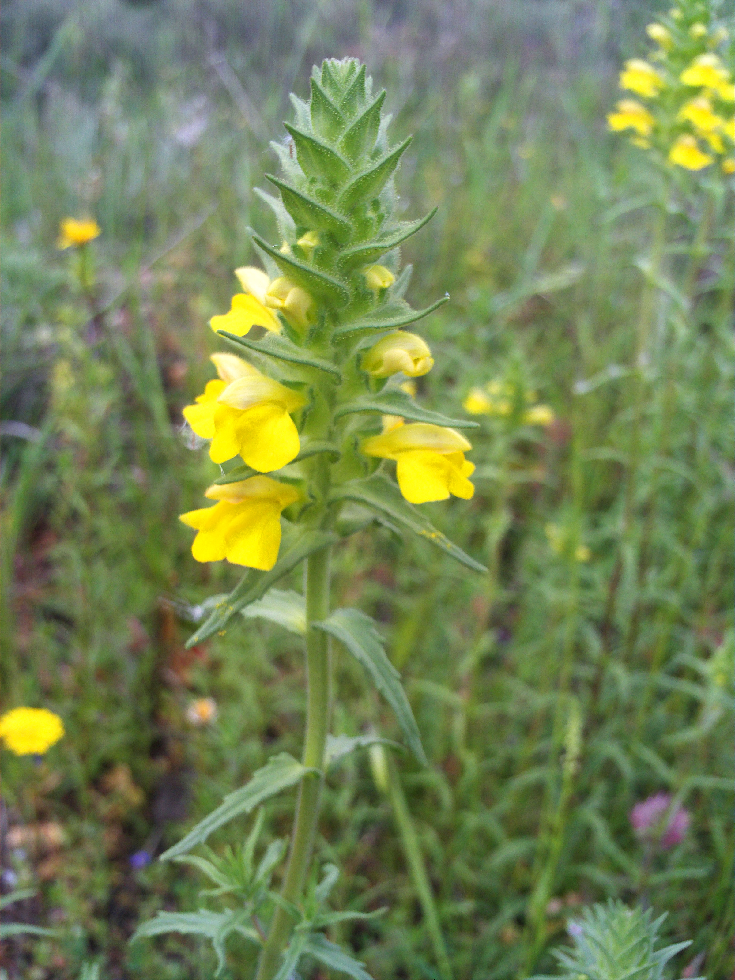 Parentucellia viscosa plant, Sierra Madrona, Spain